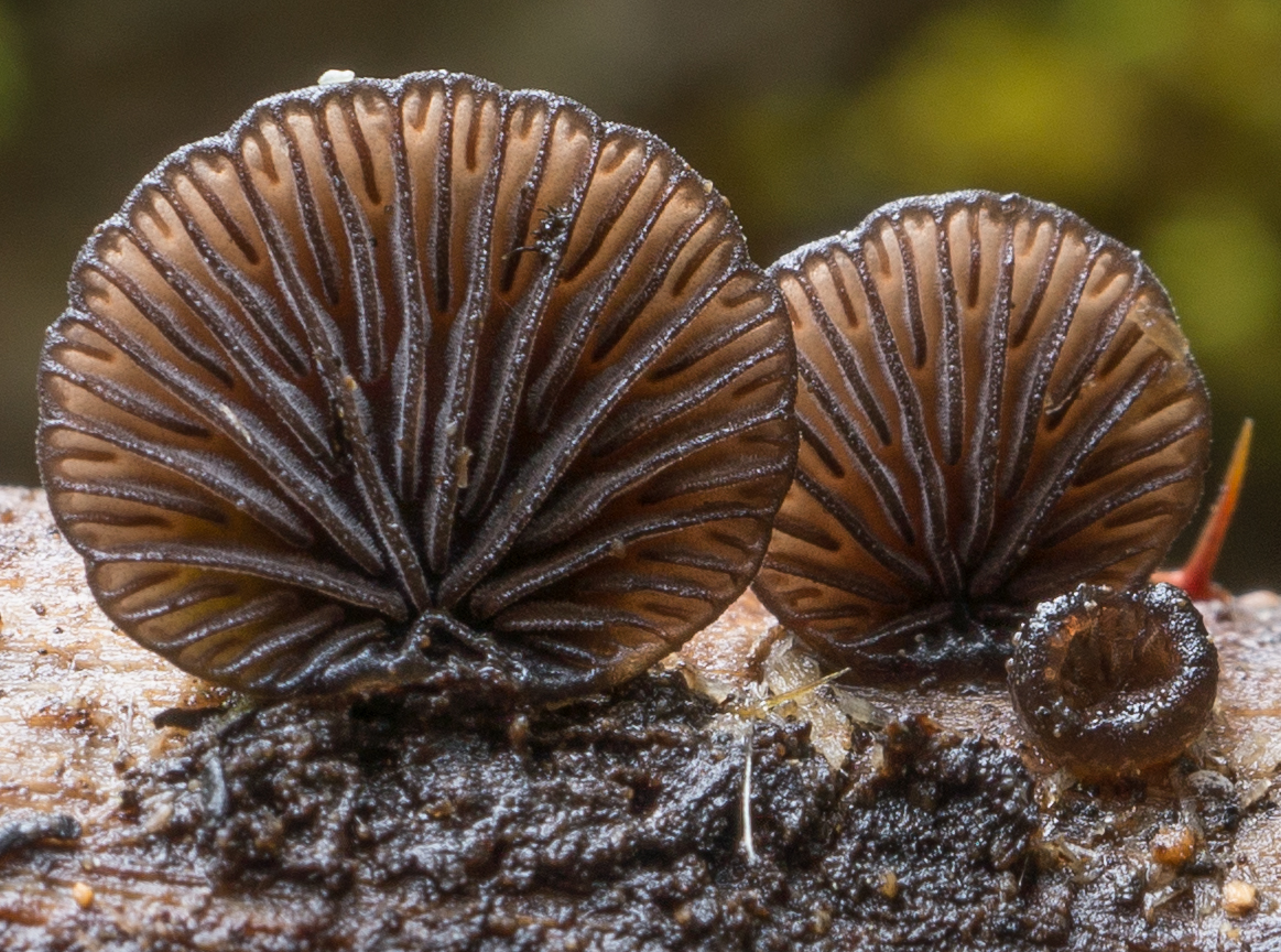 Hohenbuehelia grisea (Peck) Singer Image location: Los Trancos Preserve, Palo Alto, California, USA On rotten eucalyptus twigs. About 1 cm across, or less. Spores 6-7 × 4. Abundant metuloid cystidia. [Thanks to C. Schwarz for suggesting microscopy.] Recognized by sight For more information about this, see the observation page at Mushroom Observer.